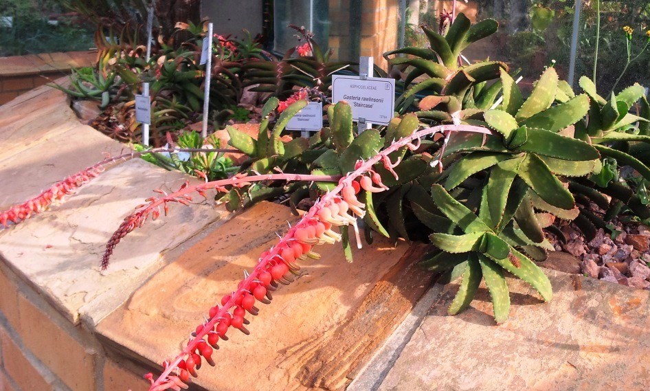 Gasteria rawlinsonii - staircase plant